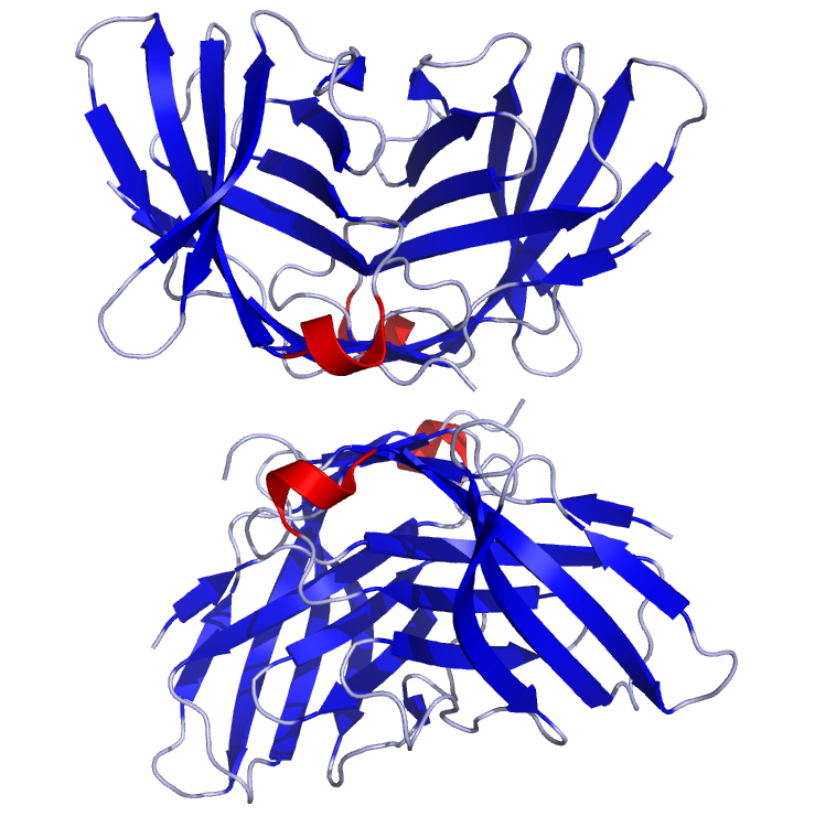 Crystal structure of CTLA4 as published in the Protein Data Bank (PDB: 1DQT)